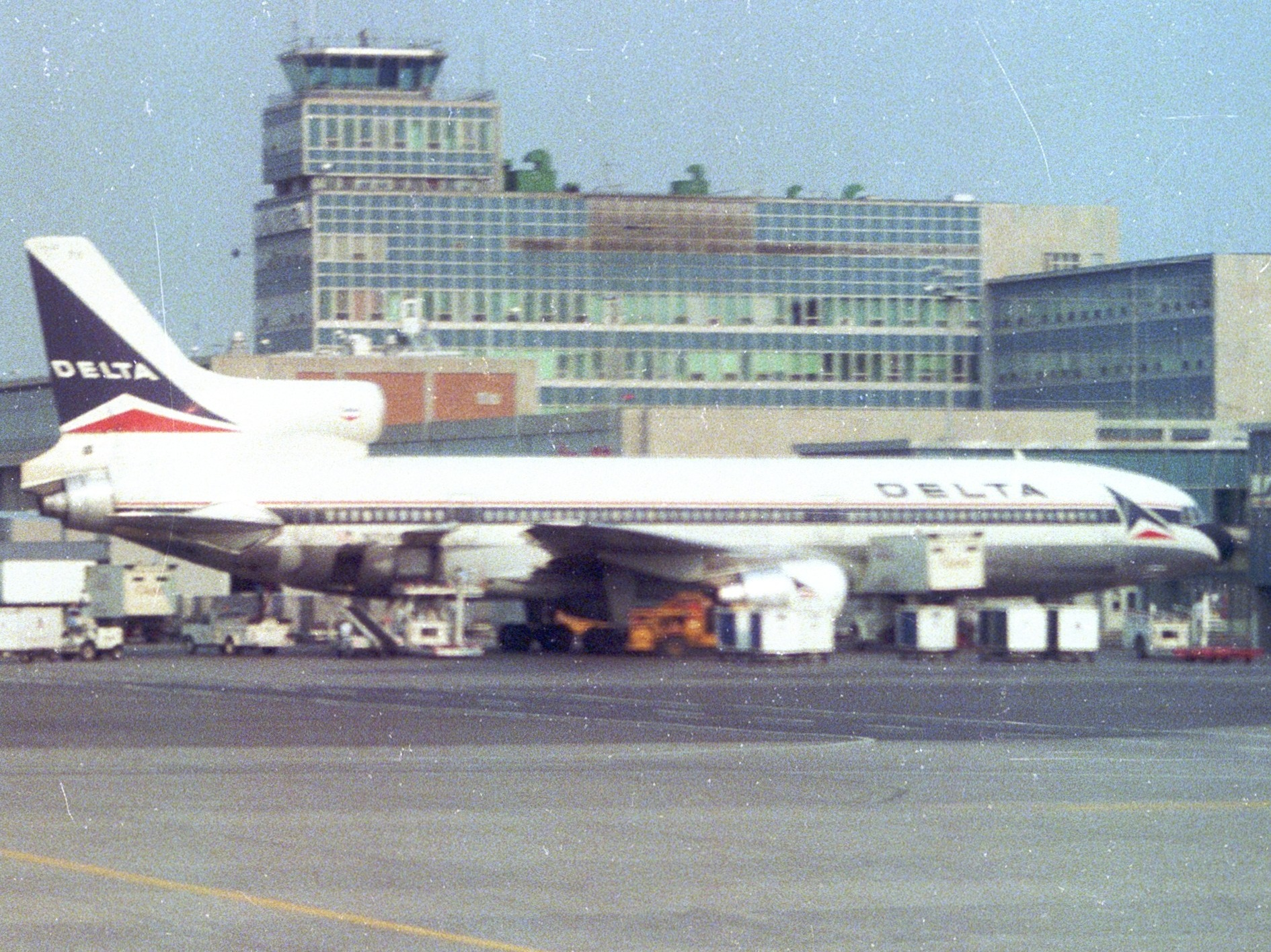 Lockheed L-1011-385-1 TriStar 1 N726DA / 726 (cn 193C-1163) Delta Air Lines. (Sadly, W/O August 2, 1985 at DFW due to microburst on approach). Montreal - Pierre Elliott Trudeau International (Dorval) (YUL / CYUL)